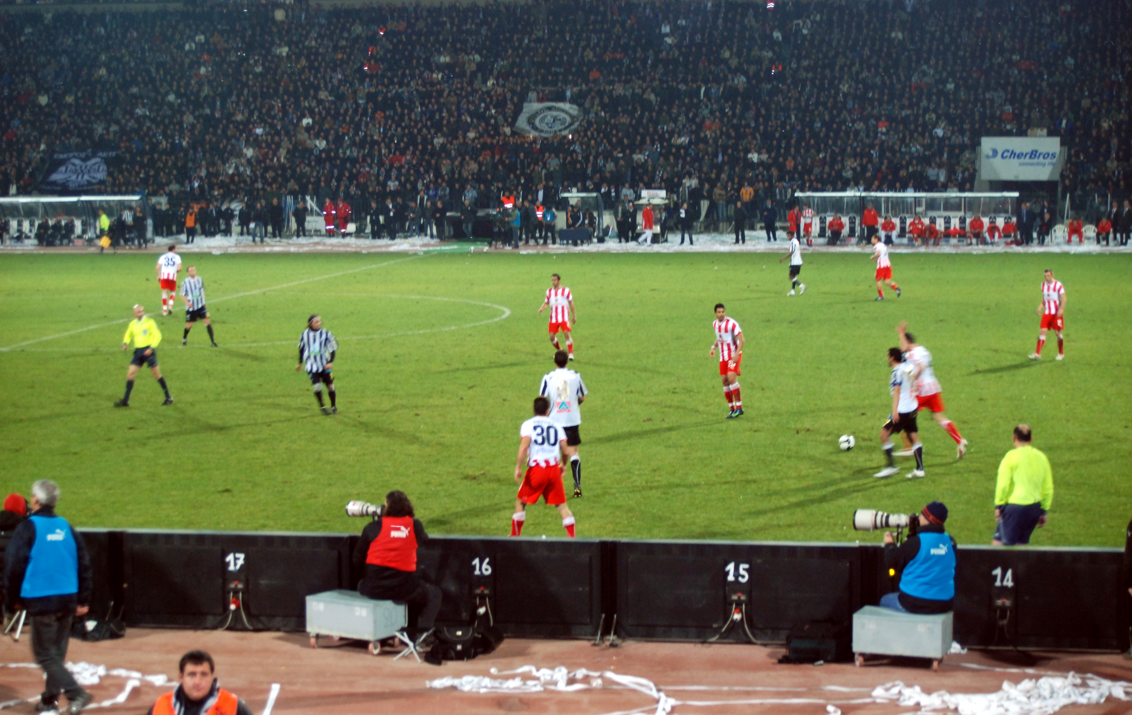 Game played 4/2/2009 for the Cup at the Toumba Stadium, Thessaloniki